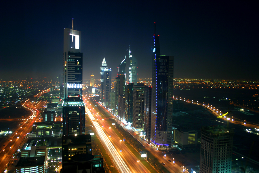 Nightscape of the high-rise section of Dubai, Unitd Arab Emirates.IMG_3585